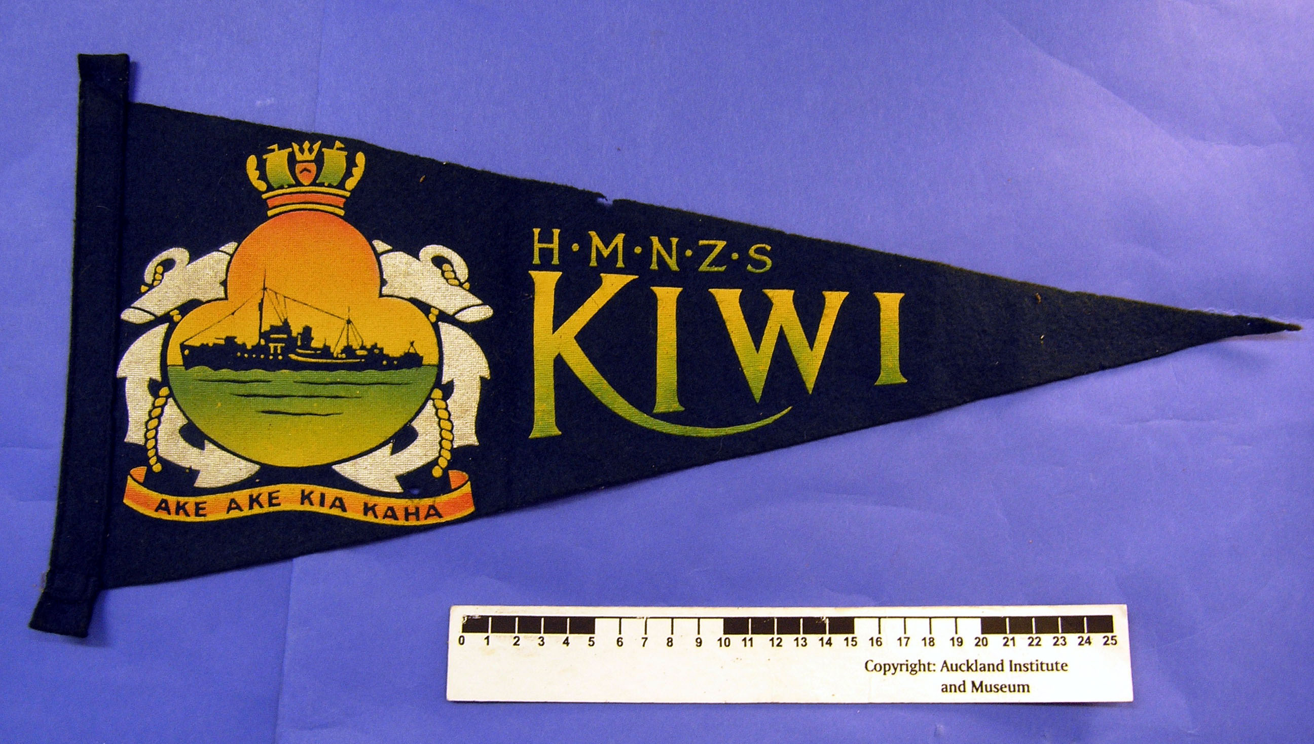 HMNZS Kiwi pennant; belonged to NZ112509 Seaman Ronald D Williams, Royal New Zealand Navy, served Korean War (1950-1951)